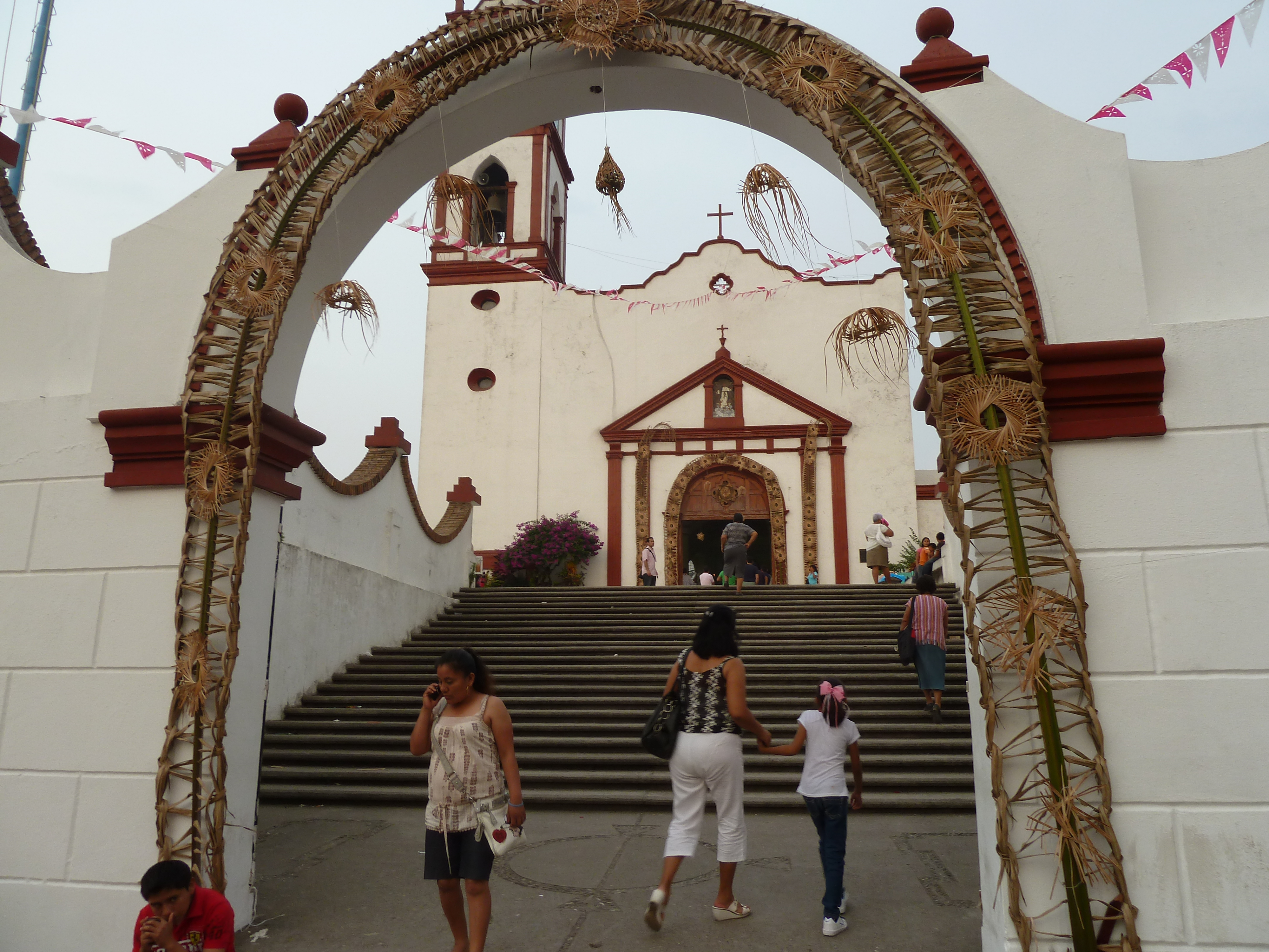 Fachada de la catedral de Nuestra Señora de Asunción, con portal engalanado con hoja de palma trenzada durante la Semana Santa